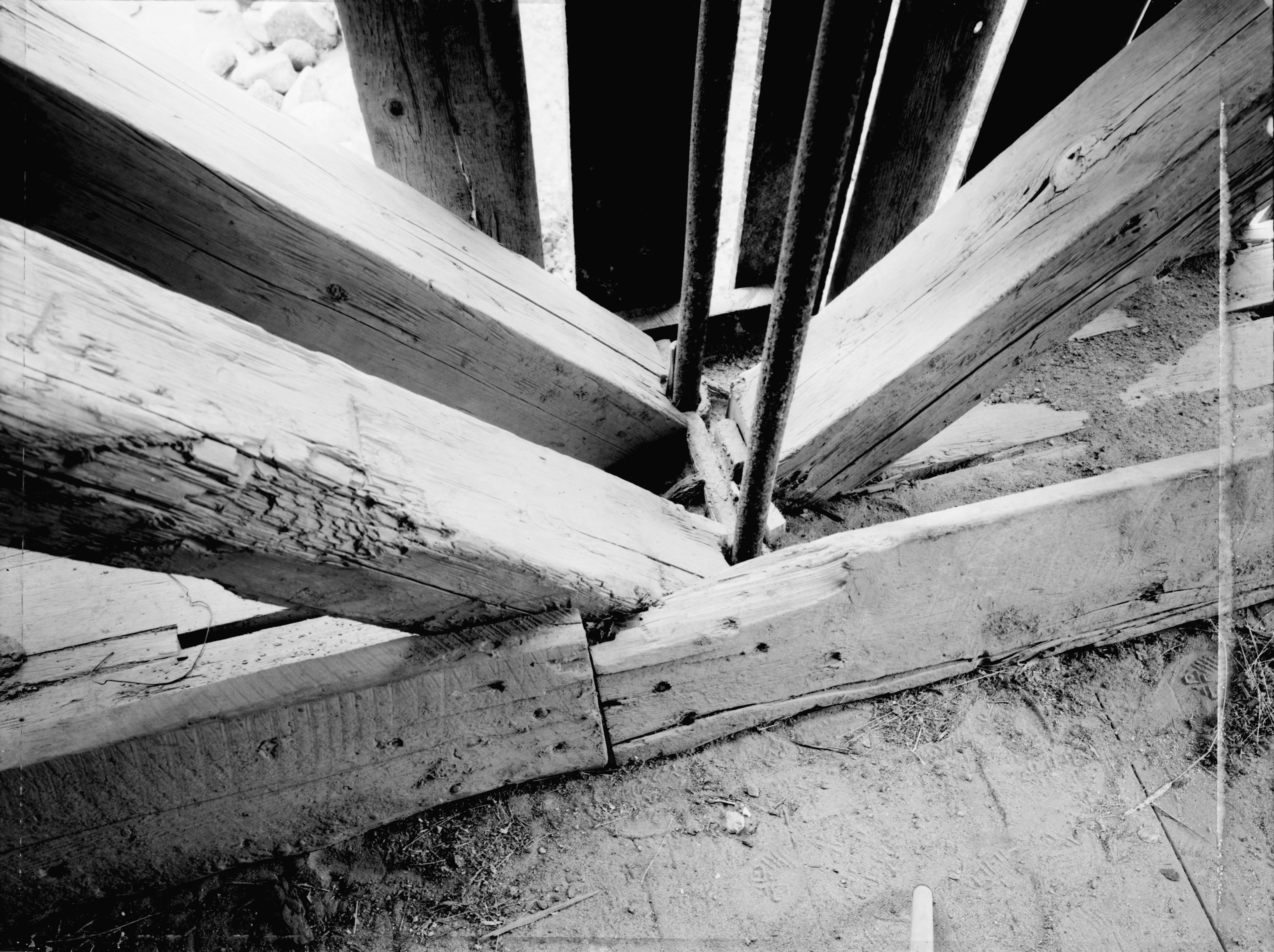 Cast iron angle block against which are seated compression members (large diagonal beams) and tension members (slender vertical rods), part of the Jay Covered Bridge in Jay, Essex County, New York, USA.